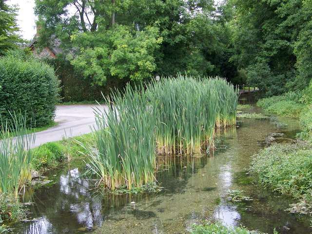 Nine Mile River, Bulford Nine Mile river isn’t nine miles long but is thought to have been so named as carters reckoned it was nine miles to Salisbury when they reached it!